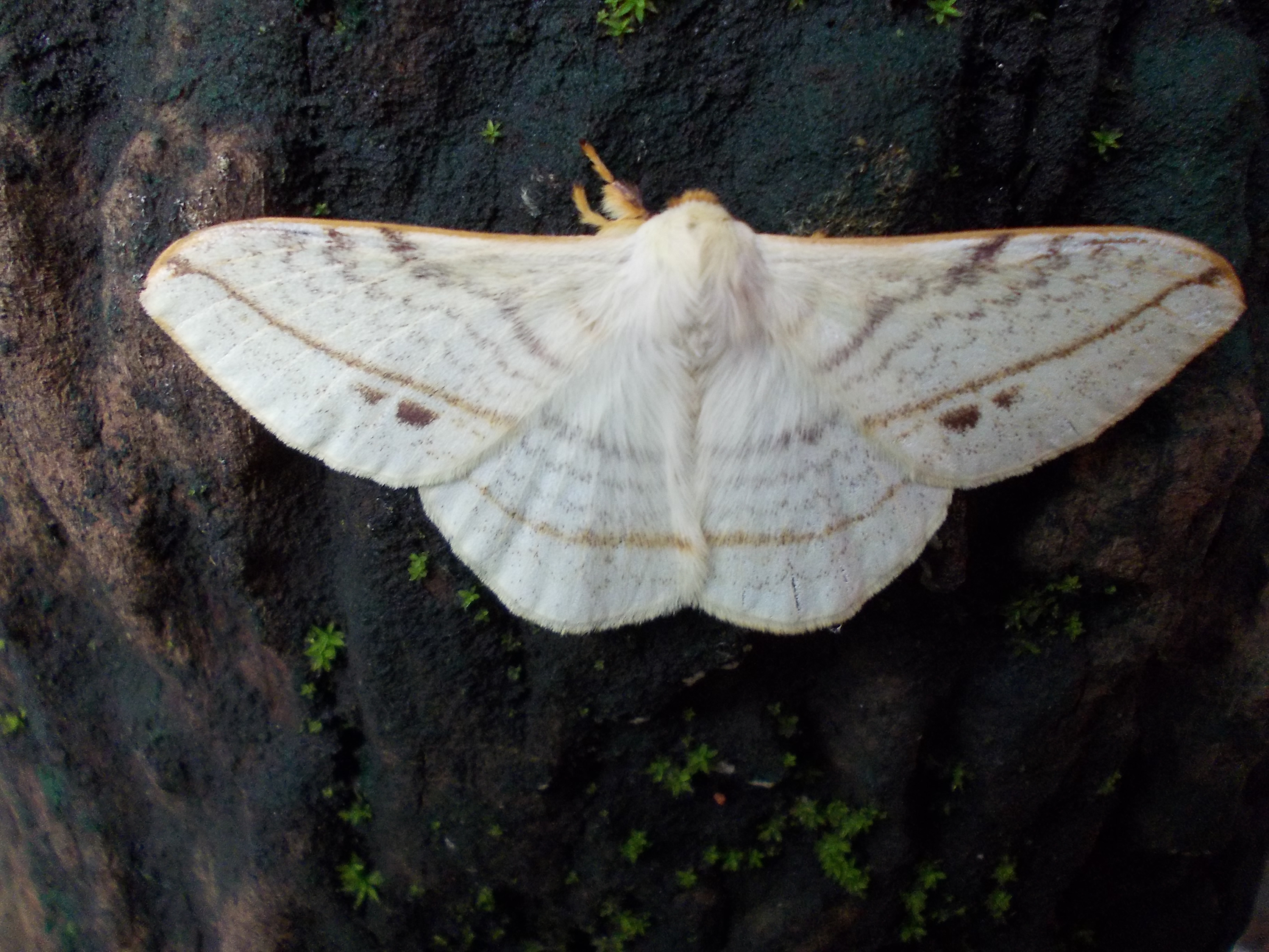 Moth_Kerala